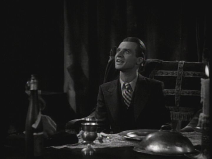 Cropped screenshot of Dwight Frye from the trailer for the film Dracula